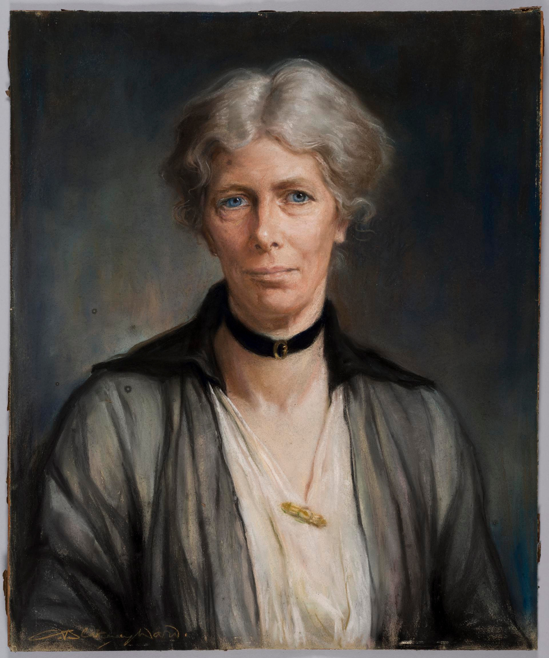 Portrait of Mary Collin, headmistress of Cardiff High School for Girls (1895-1924), and chair of the Cardiff & District Women's Suffrage Society. Oil pastel on board by Mrs C. Blackeney Ward, 1924